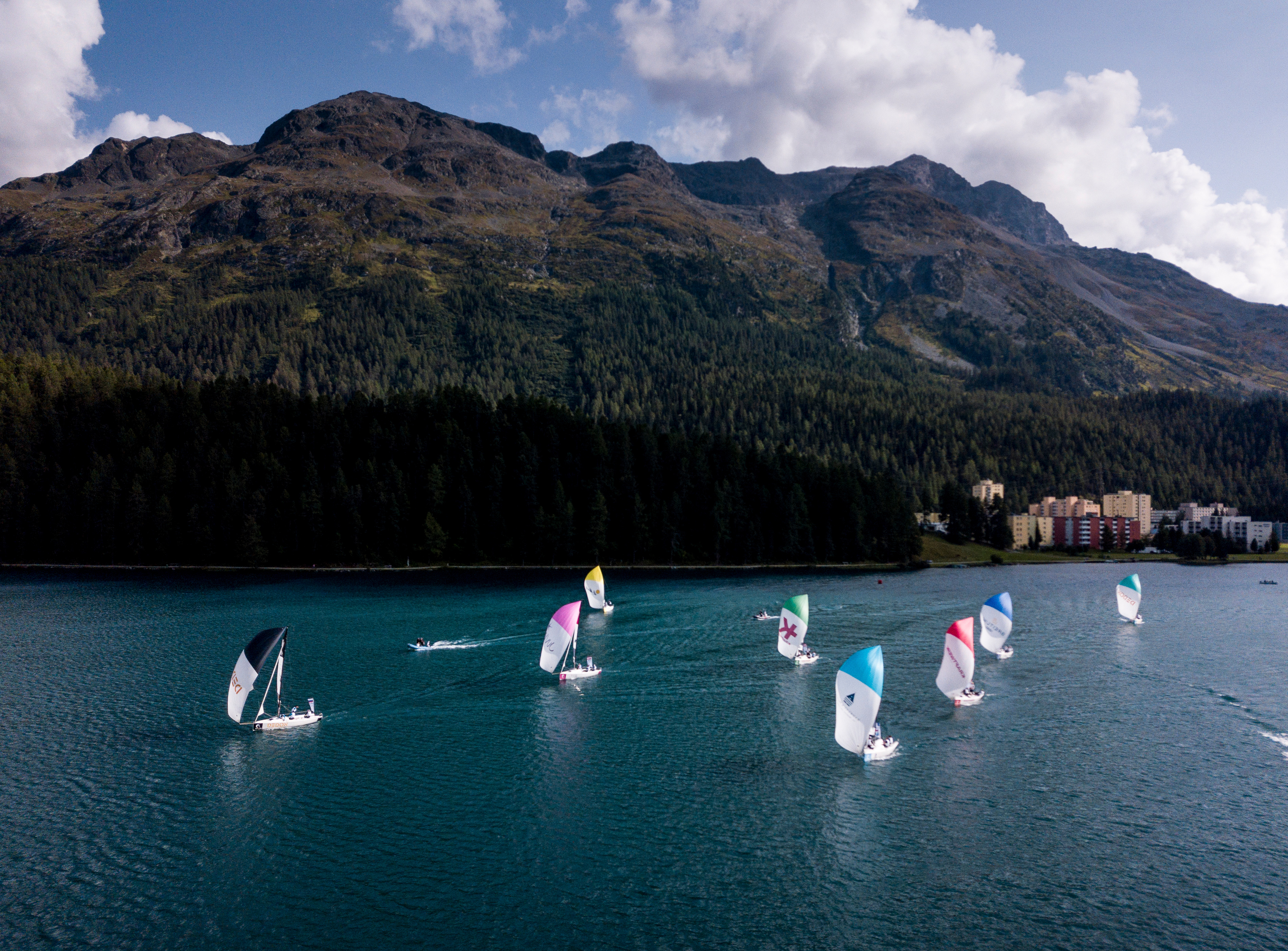 Thirty-two of the world’s best sailing clubs representing twelve nations are set to fight for the prestigious silver trophy in the SAILING Champions League Final 2018, due to take place in St Moritz on 30 August to 2 September. Whoever ends up earning the title of “Best Sailing Club of the Year” will quite literally feel on top of the world, as the winning crew will be celebrating on top of a podium that stands 1,856 metres above sea level, on the shores of Lake St Moritz. © SAILING CHAMPIONS LEAGUE / SAILING ENERGY 13 October, 2014.